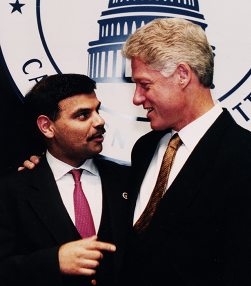 Ijaz & Clinton 1996 DSCC Event